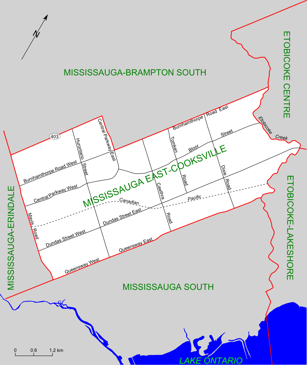 Map of the Ontario federal and provincial riding of Mississauga East-Cooksville. Boundaries defined in 2003, and adopted federally in 2004 and provincially in 2007.